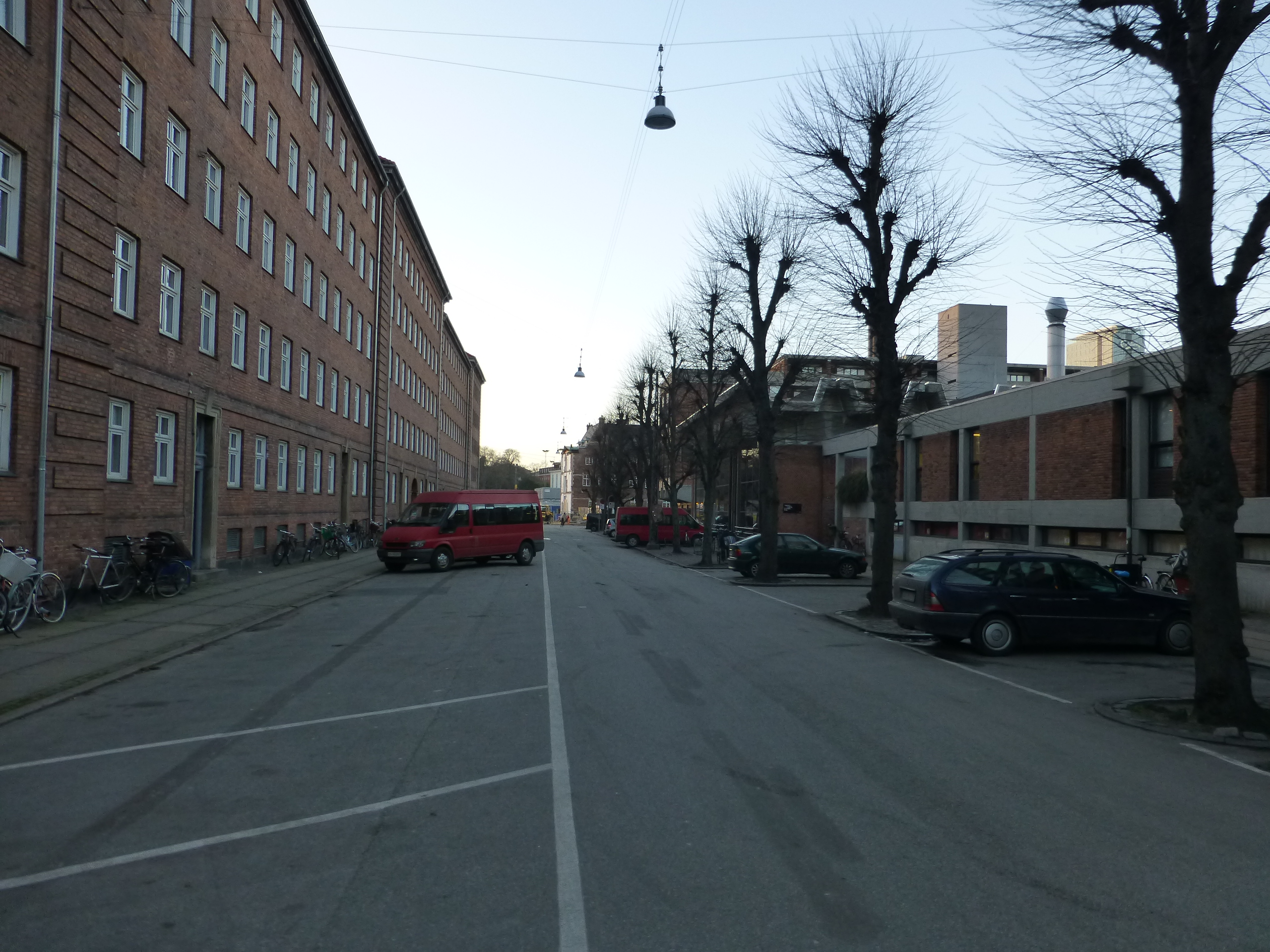 The street Angelgade in Vesterbro in Copenhagen.